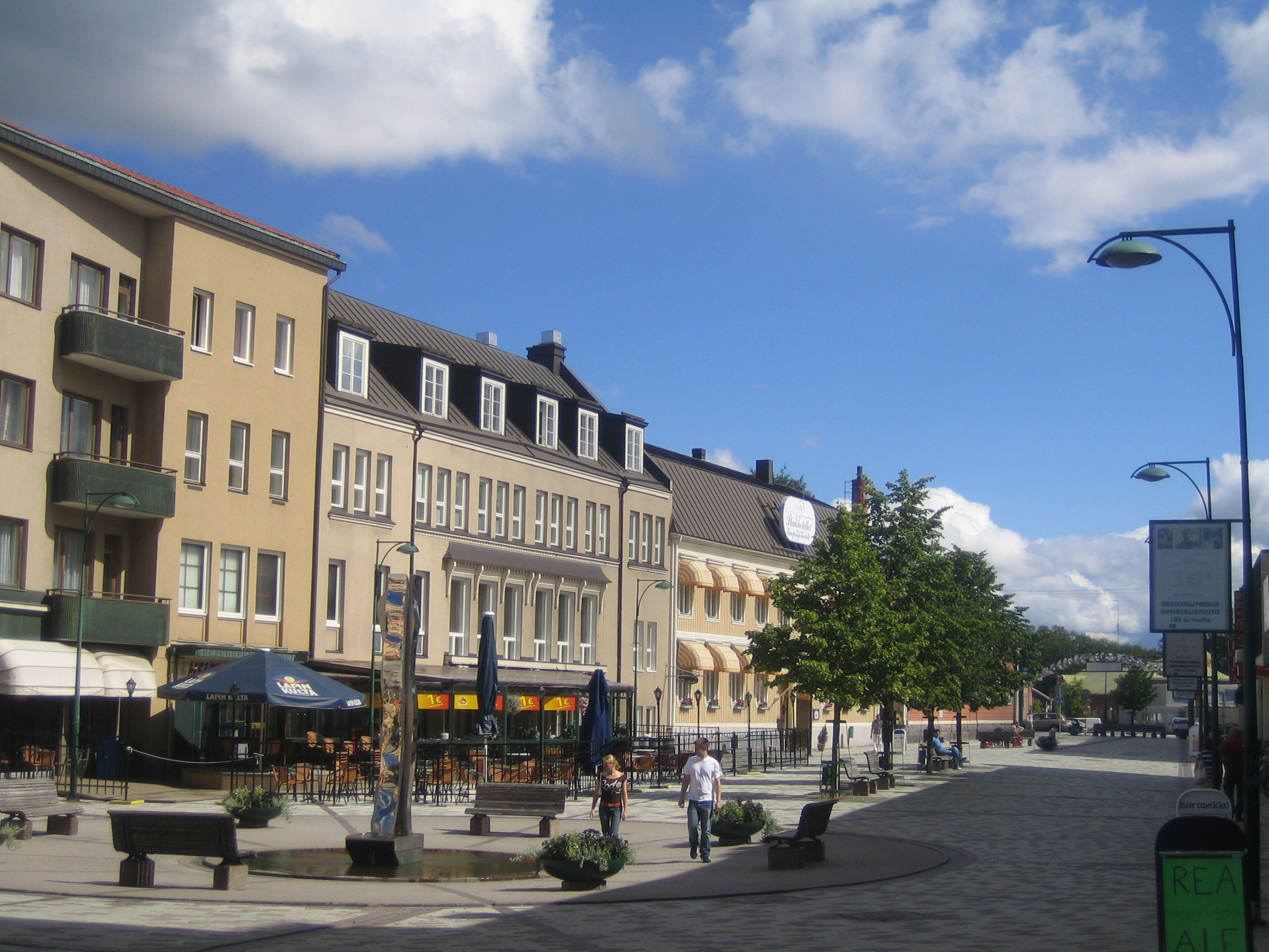 Main pedestrian street in Jakobstad, Finland.